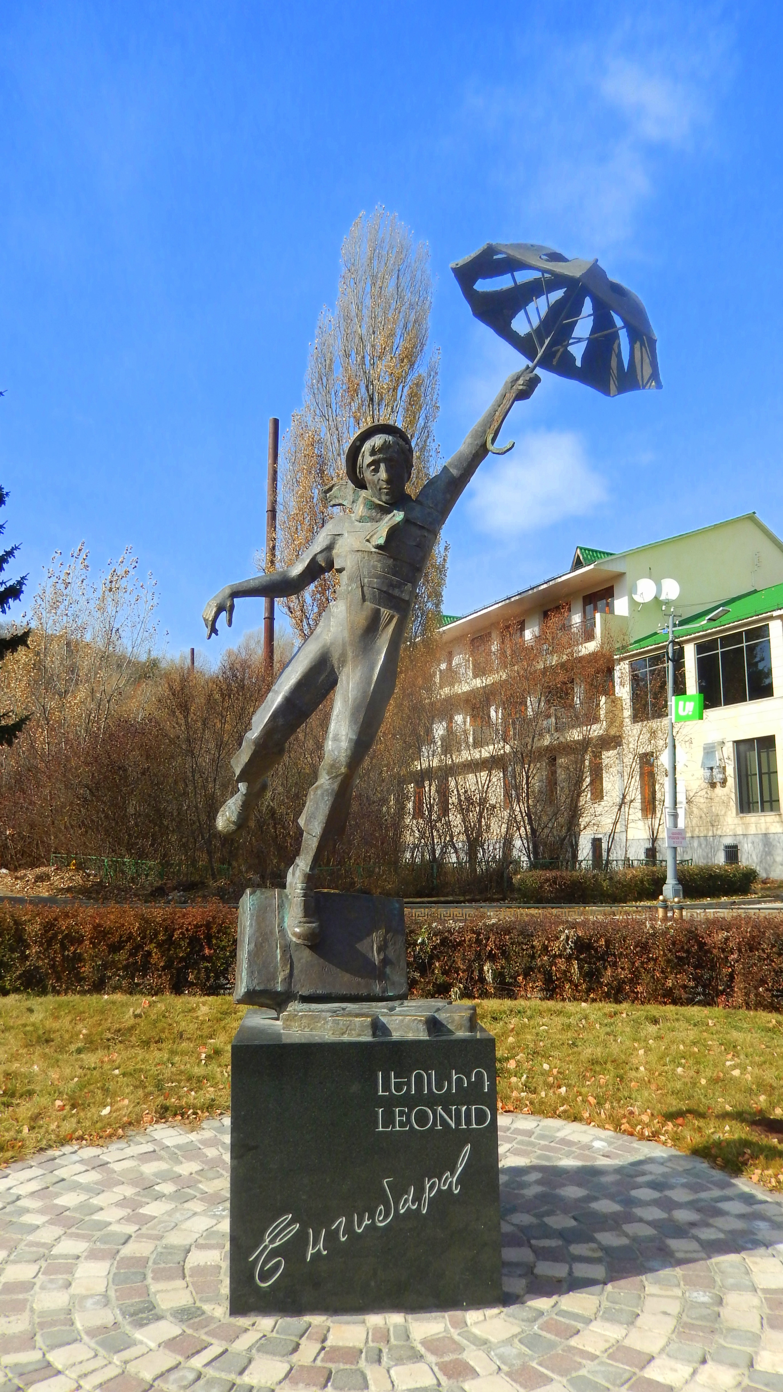 Leonid Yengibaryan's monument in Tsakhkadzor, Square Tsakhkunyats